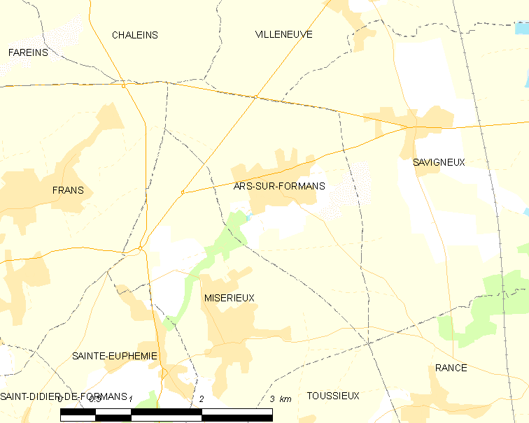 Map of French commune: Ars-sur-Formans Map commune FR insee code 01021.png